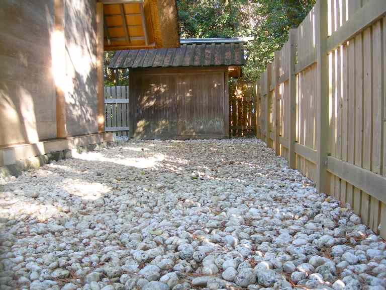 Mishio-no-mikura of Mishioden-jinja. Mishioden-jinja is the salt supplier for Jingu, Futami-cho, Ise city Mie prefecture, Japan. Mishio-no-mikura is a storehouse for dible salt.